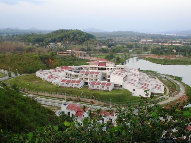 IIT Guwahati guesthouse as viewed from hill top